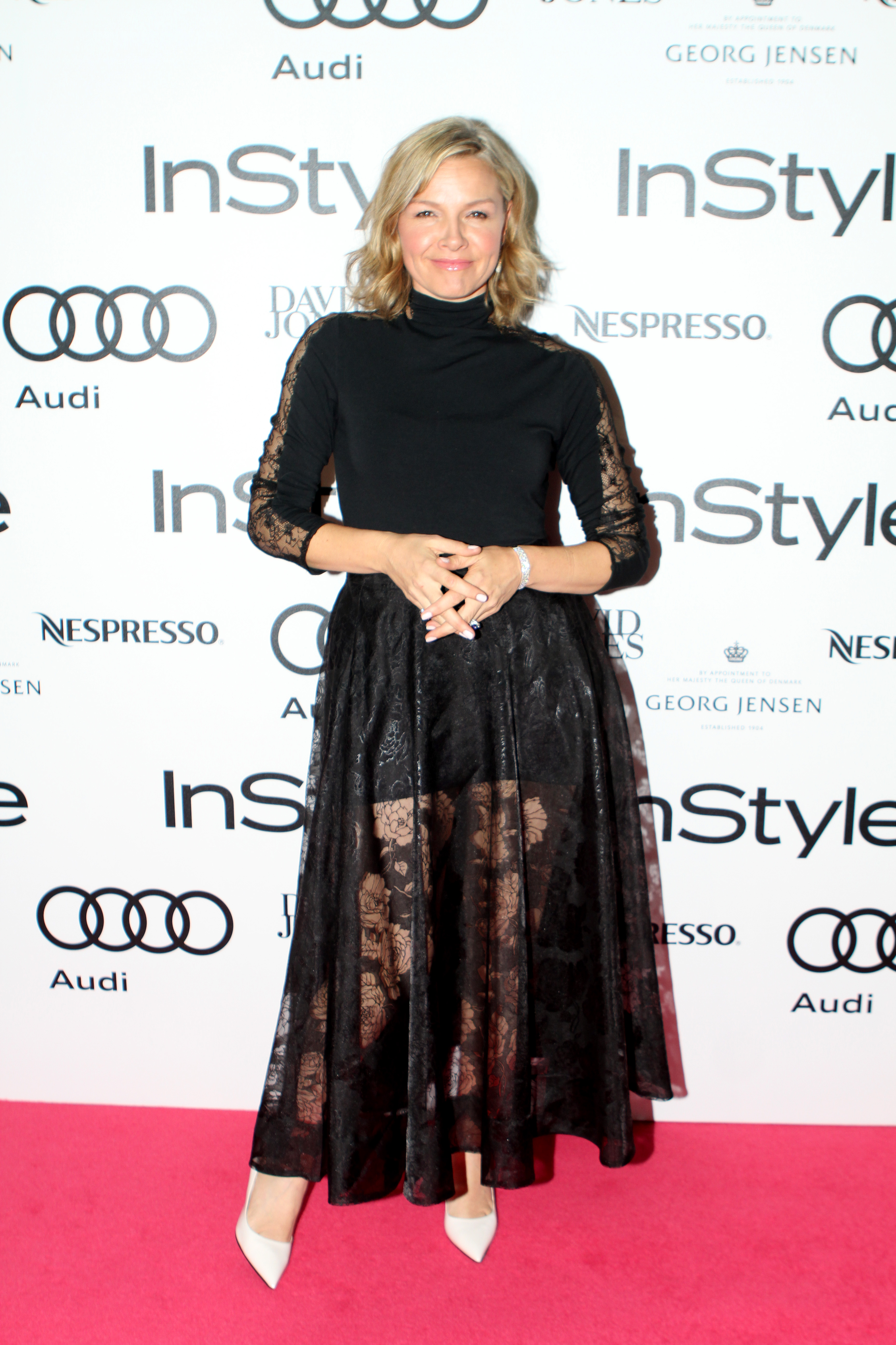 Instyle Awards 2015 InStyle and Audi Host Seventh Annual Woman Of Style Awards Red Carpet Gala Event